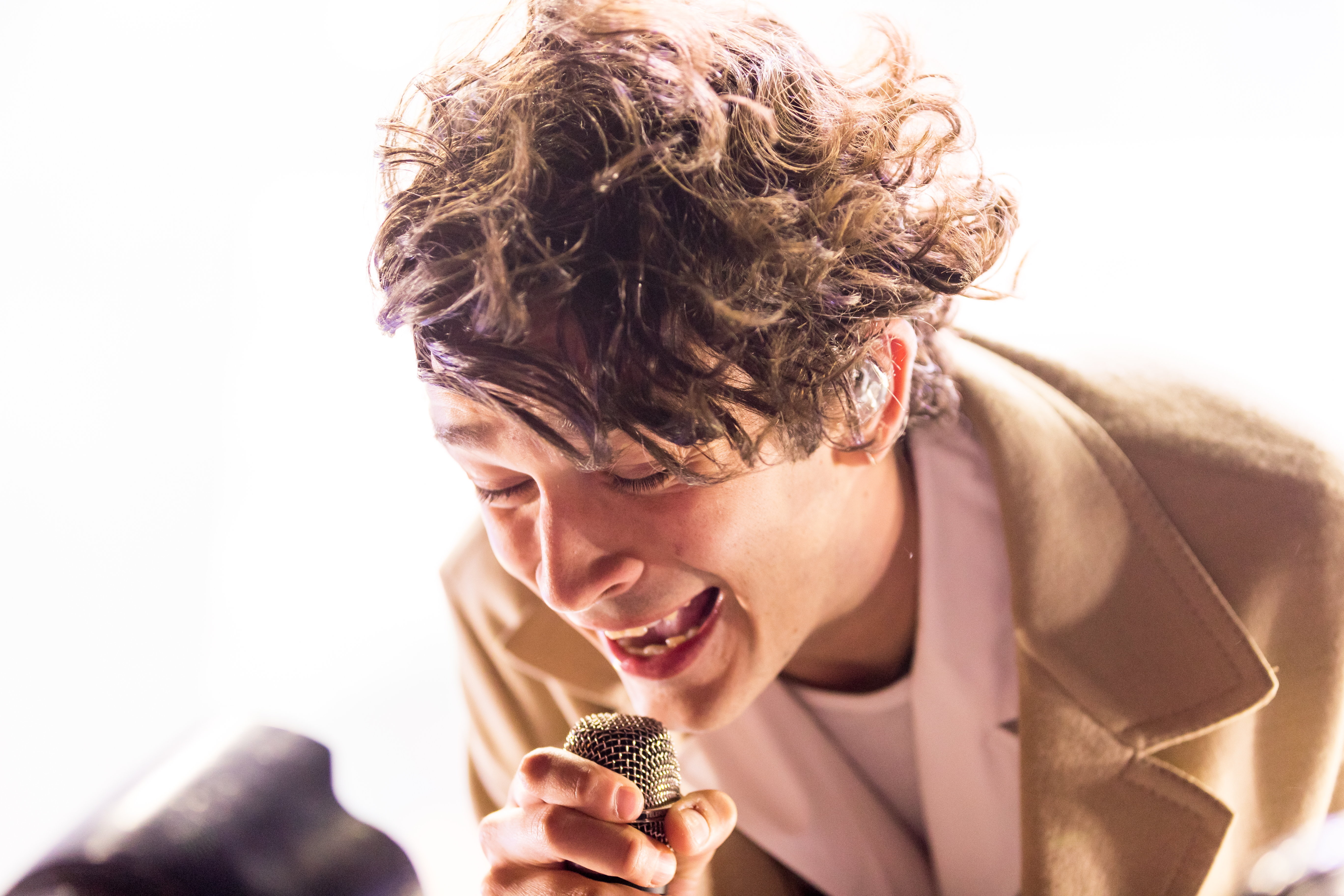 The 1975 during Rock am Ring ( at Nürburgring, Rheinland-Pfalz, Germany on 2019-06-07, Photo: Sven Mandel Promotion by Live Nation (